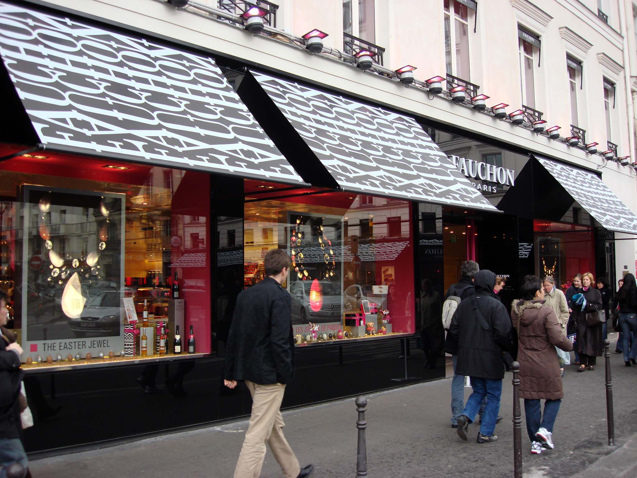 Fauchon shop in Paris